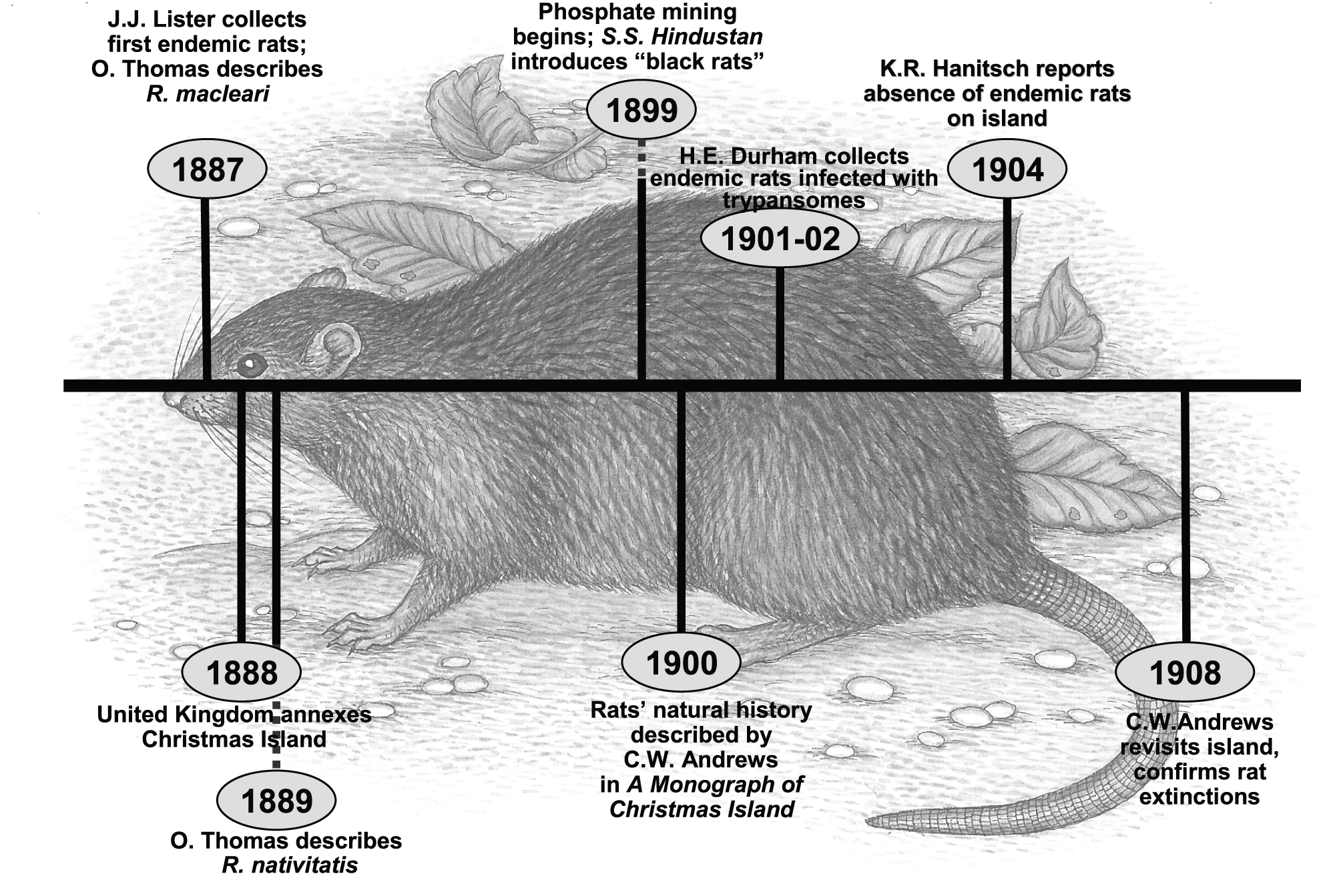 Extinction time line for Christmas Island rats (background drawing of Rattus macleari)